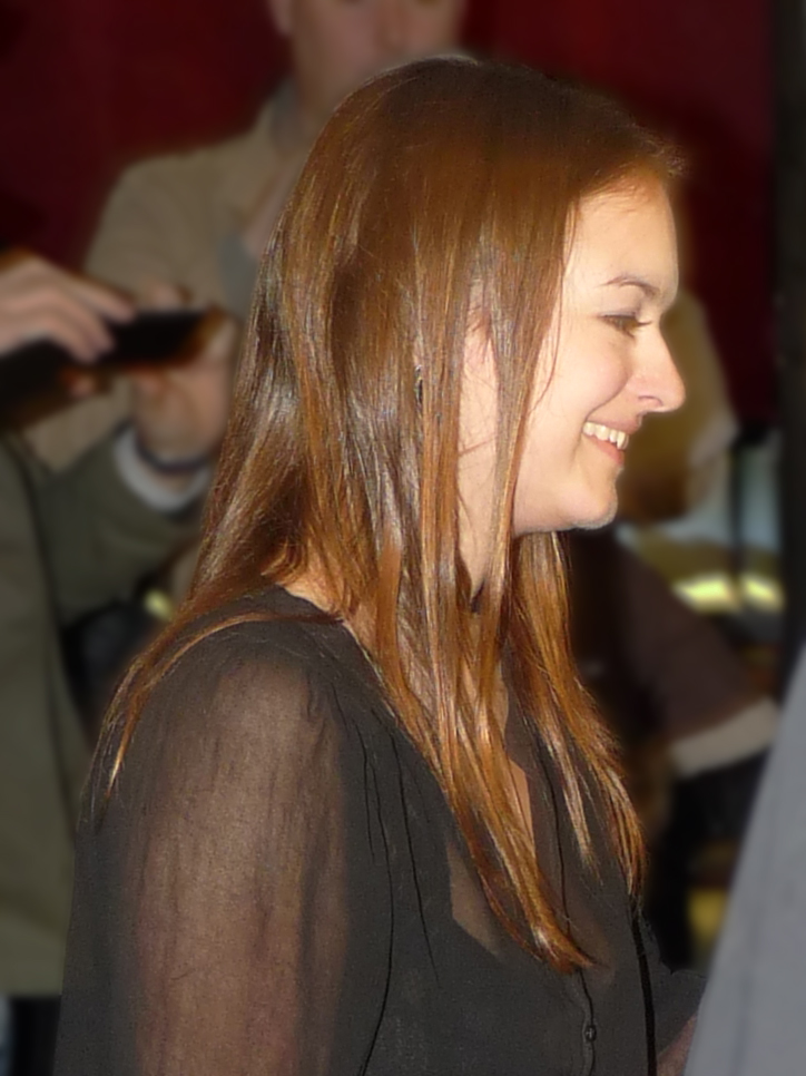 actress Michelle Barthel at the premiere of the movie Spieltrieb in Münster, Germany